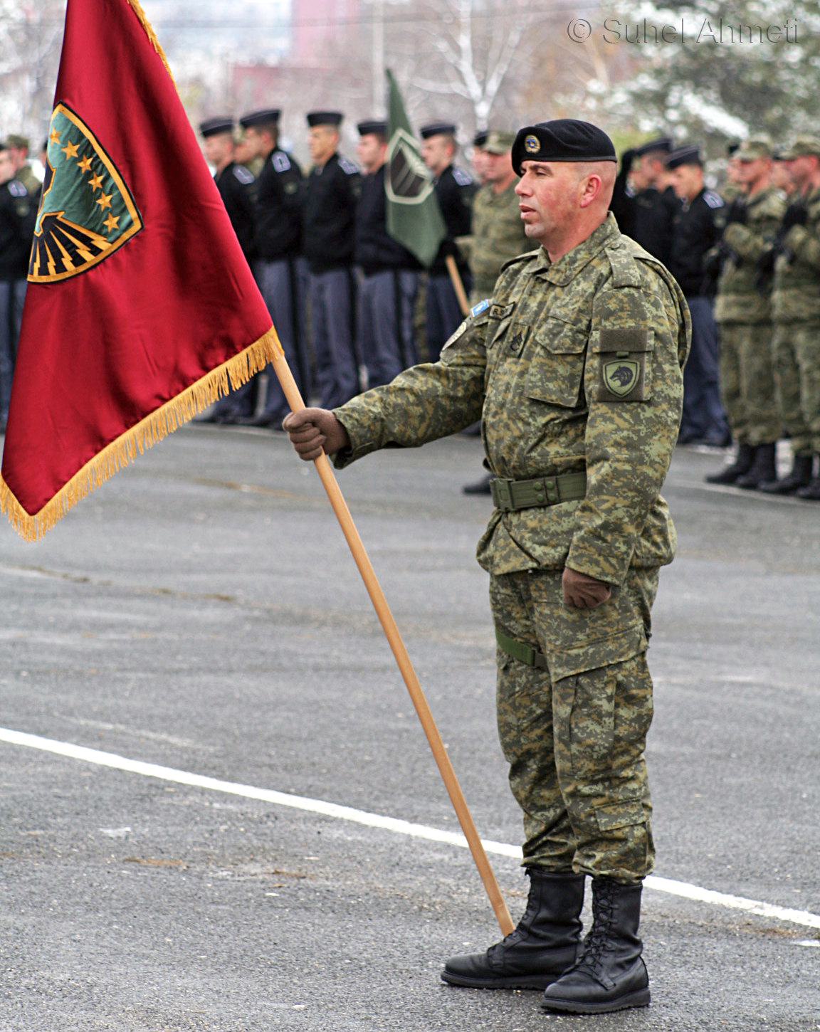 Manifestim per nder te dites se themelimit te FSK-se (Ushtrise se Kosoves). 27 Nentori dita e themelimit te FSK-se. Celebration in honor of the day of establishment of the KSF (Kosovo Army). 27 November the official day of establishment of the KSF.